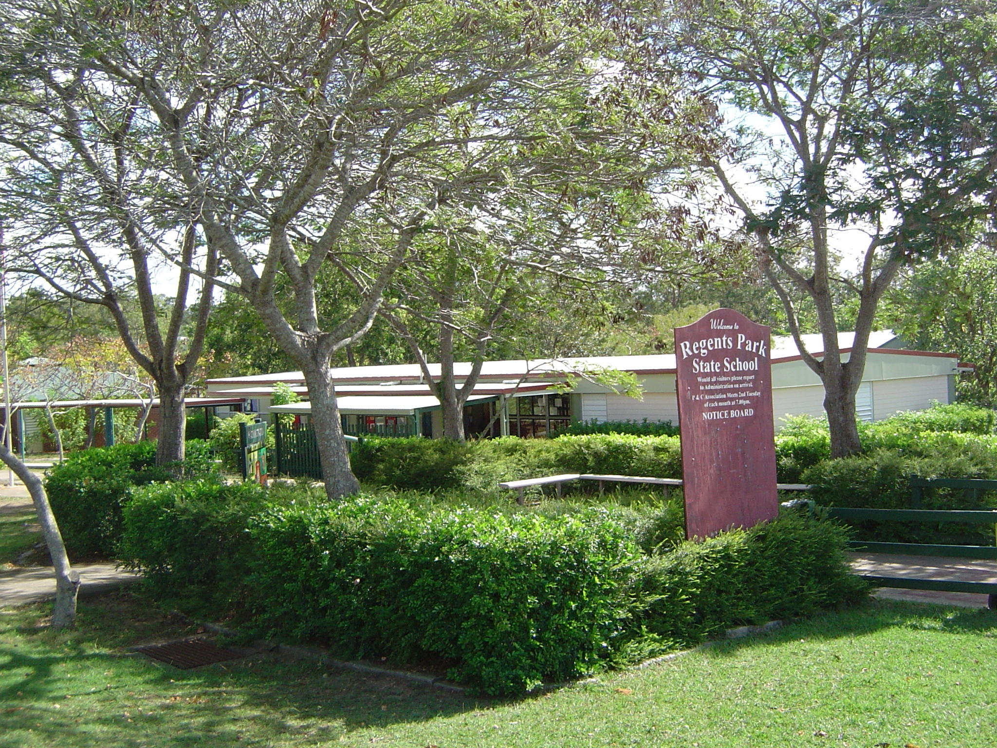 Photo of entrance to Regents Park State School at Regents Park, Logan City, Queensland, Australia.